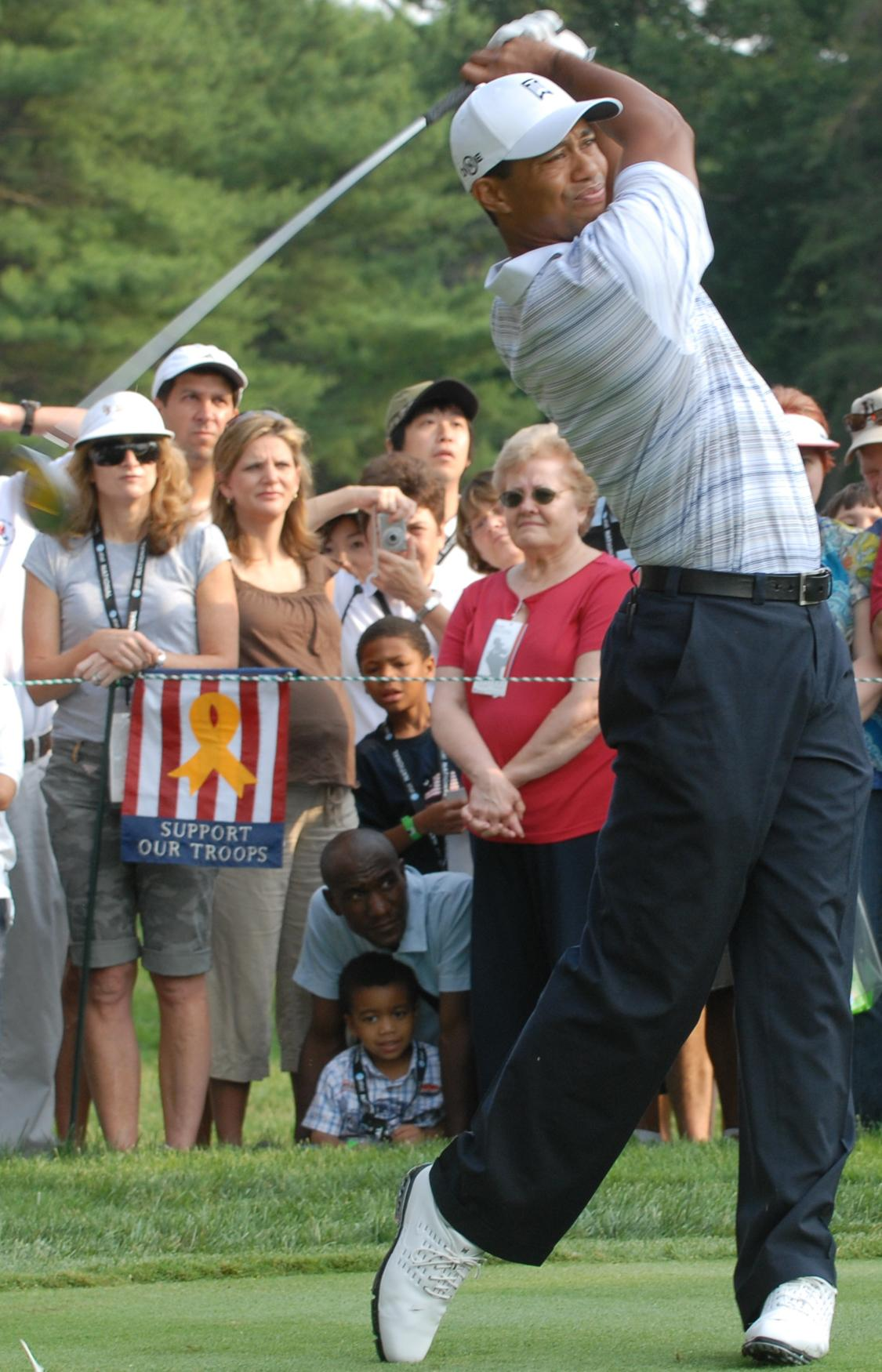 Tiger Woods, champion golfer, drives the ball down range during the inaugural Earl Woods Memorial Pro-Am Tournament, part of the AT&T National PGA Tour event, July 4, 2007, at the Congressional Country Club in Bethesda, Maryland, USA. Woods donated 30,000 tournament tickets to military personnel to attend the event honoring soldiers and military families.